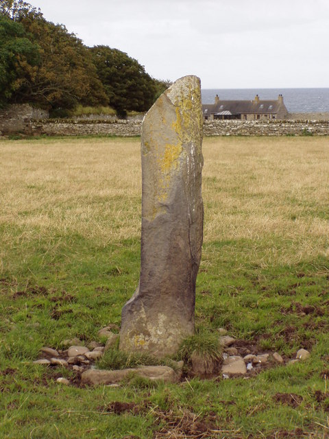 Ackergill Mains Standing Stone, Ackergill, near Wick, Highlands